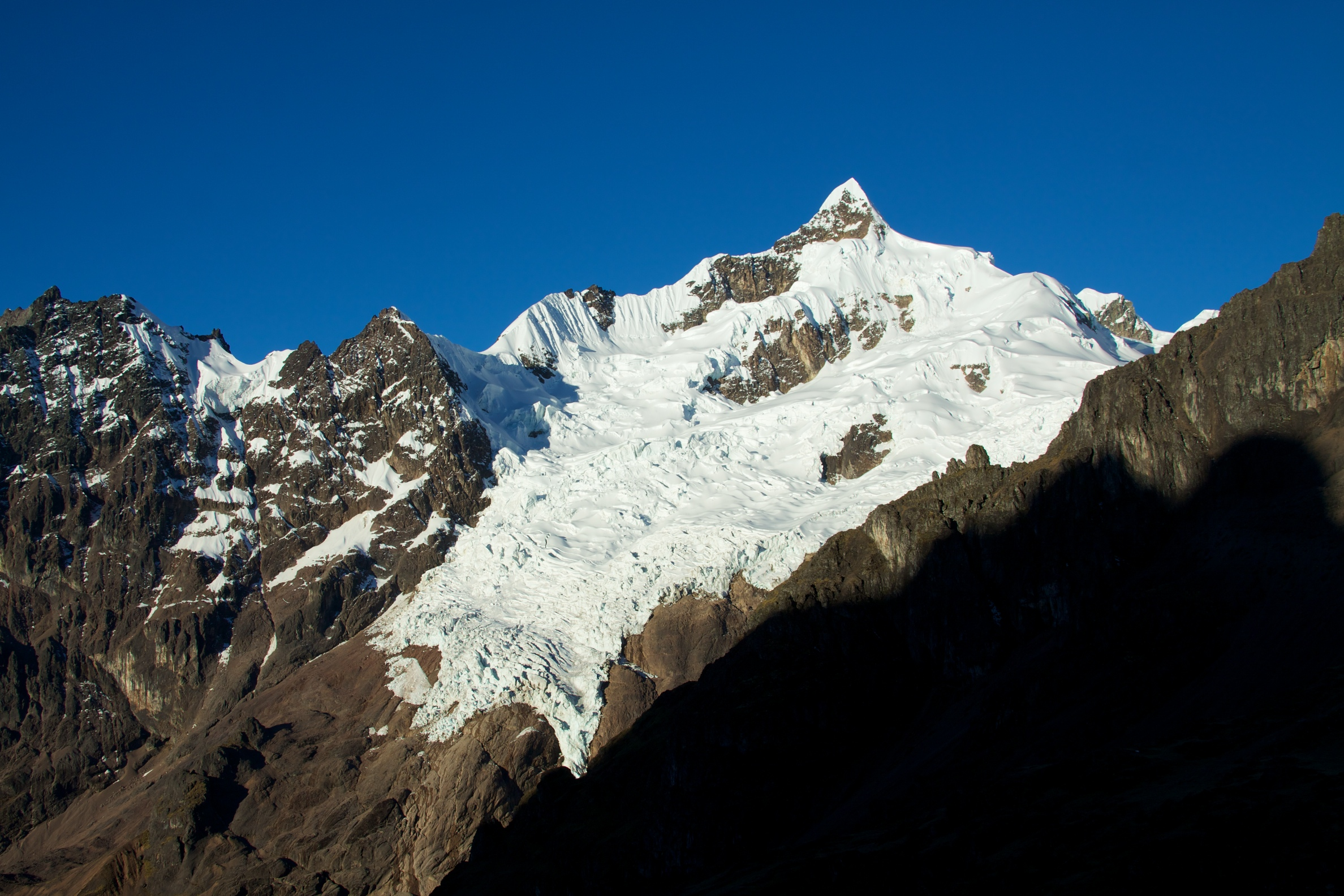 Peru - Lares Trek 016 - gprgeous glaciers spill down the high peaks